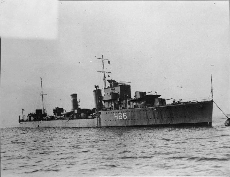 Photograph of British destroyer HMS Escort